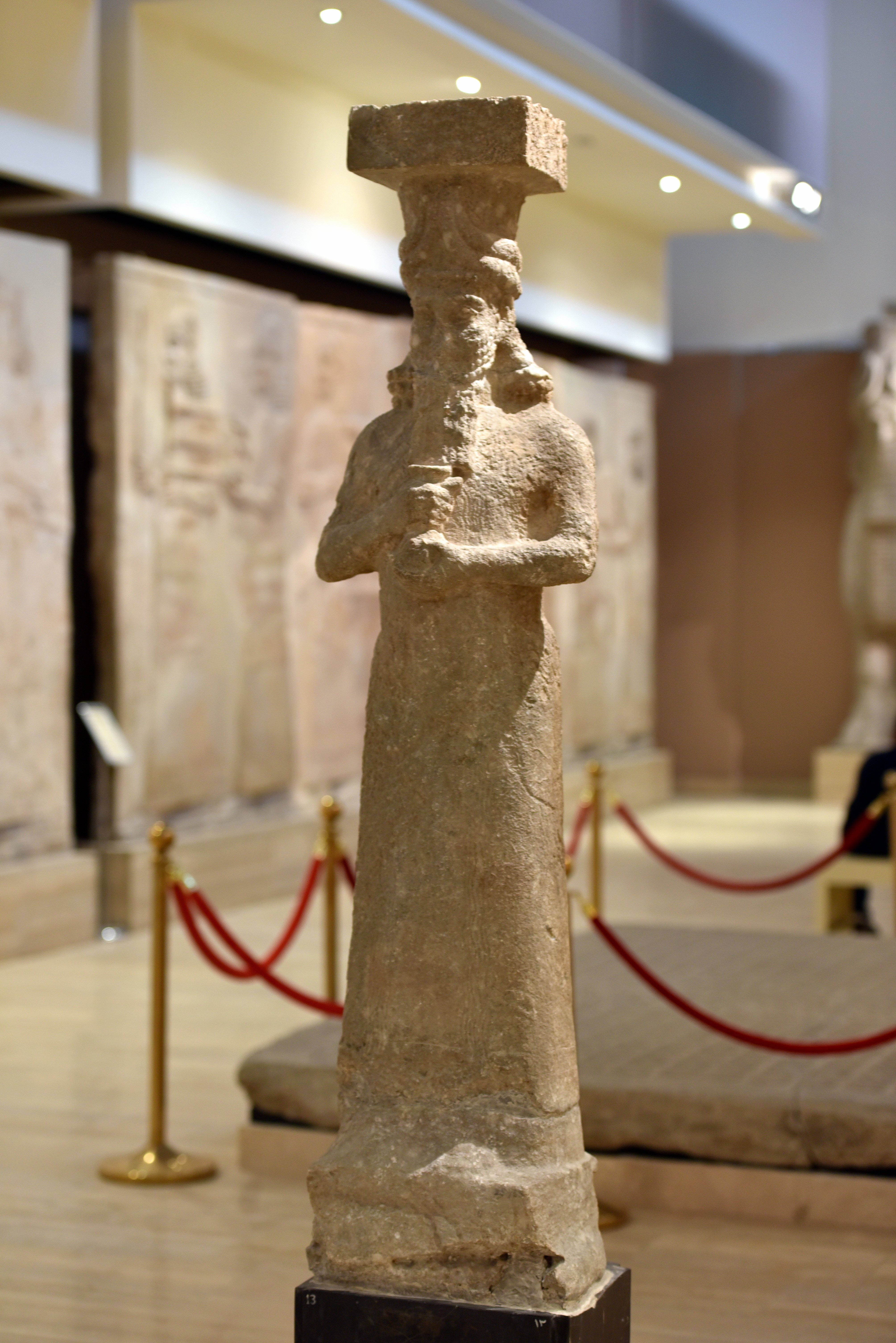 God "Ea" (Sumerian Enki), holding a cup from which water emerges and flows. Initially, Ea was the patron god of Eridu. This is one of a pair of statues of Ea which were found at the entrance to the Sin Temple at Khorsabad, Ninawa, Iraq. 710-705 BCE. On display at the Iraq Museum in Baghdad, Iraq.